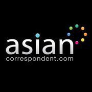 This is the logo for news organisation Asian Correspondent